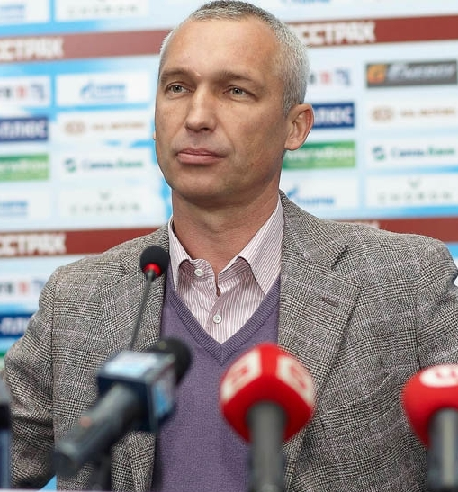 Oleh Protasov